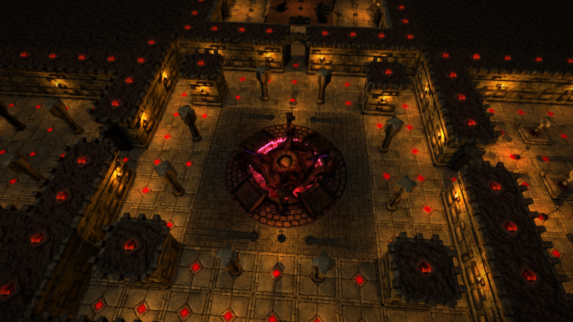 A screenshot from a pre-release version of the video game War for the Overworld